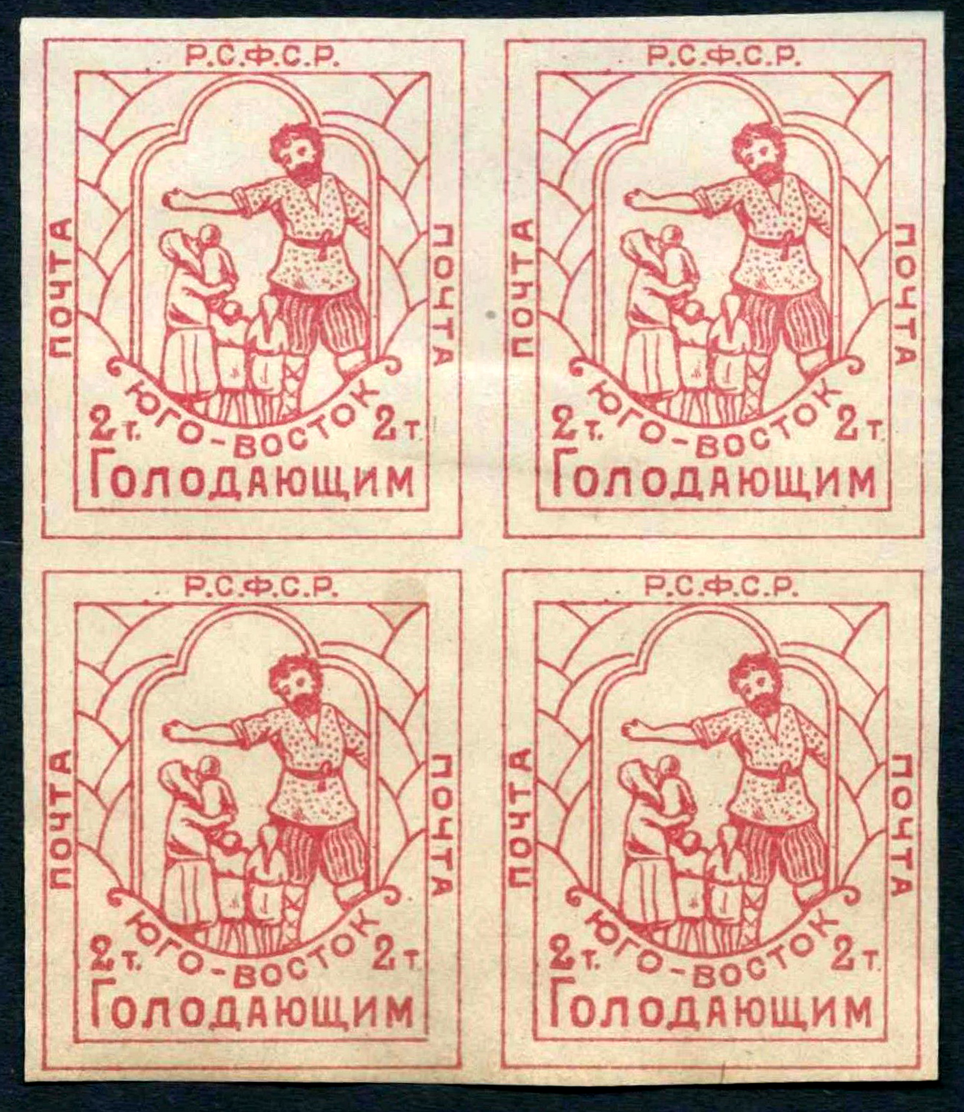 Obligatory Tax. Rostov-on-Don issue. Famine Relief. Peasant with family. Block of 4 stamps